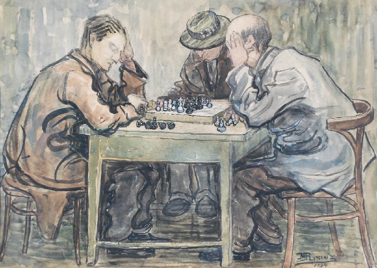 Chess-players